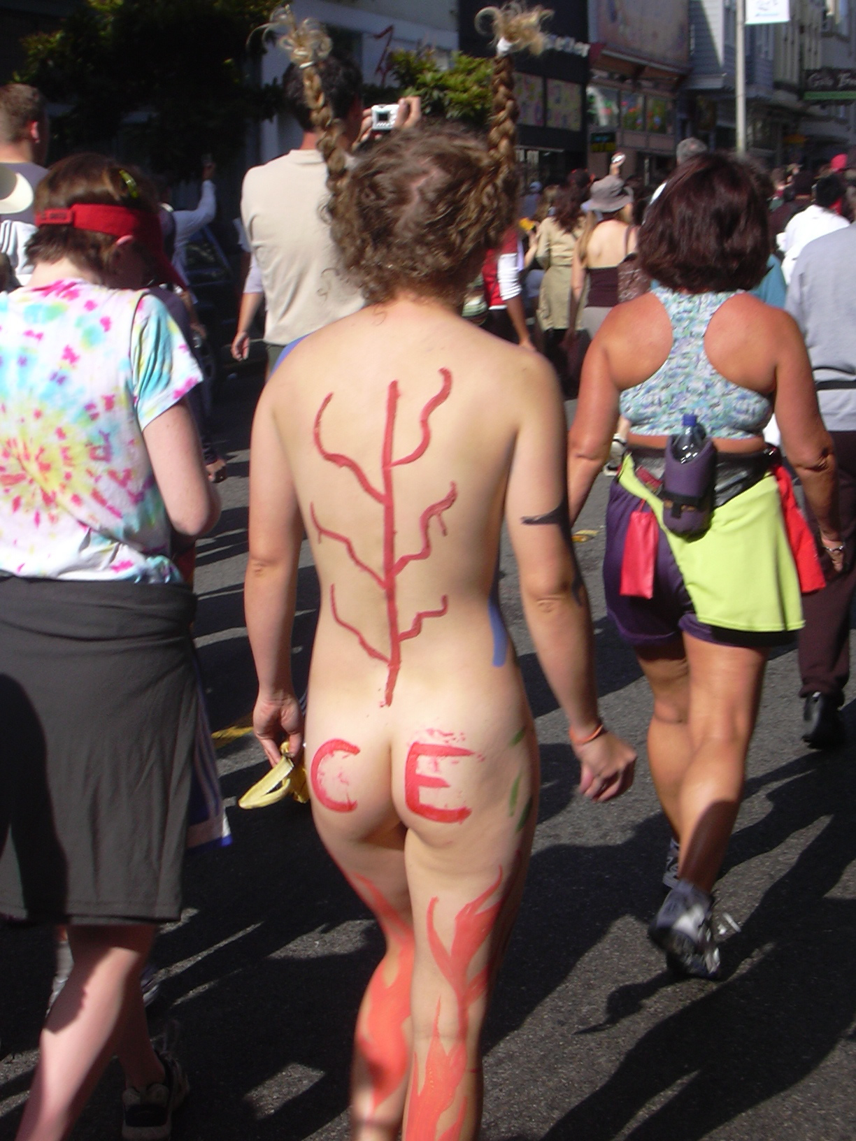 I walked the Bay to Breakers with the Bumblebees (fitness for the rest of us) in 2004. Good times!